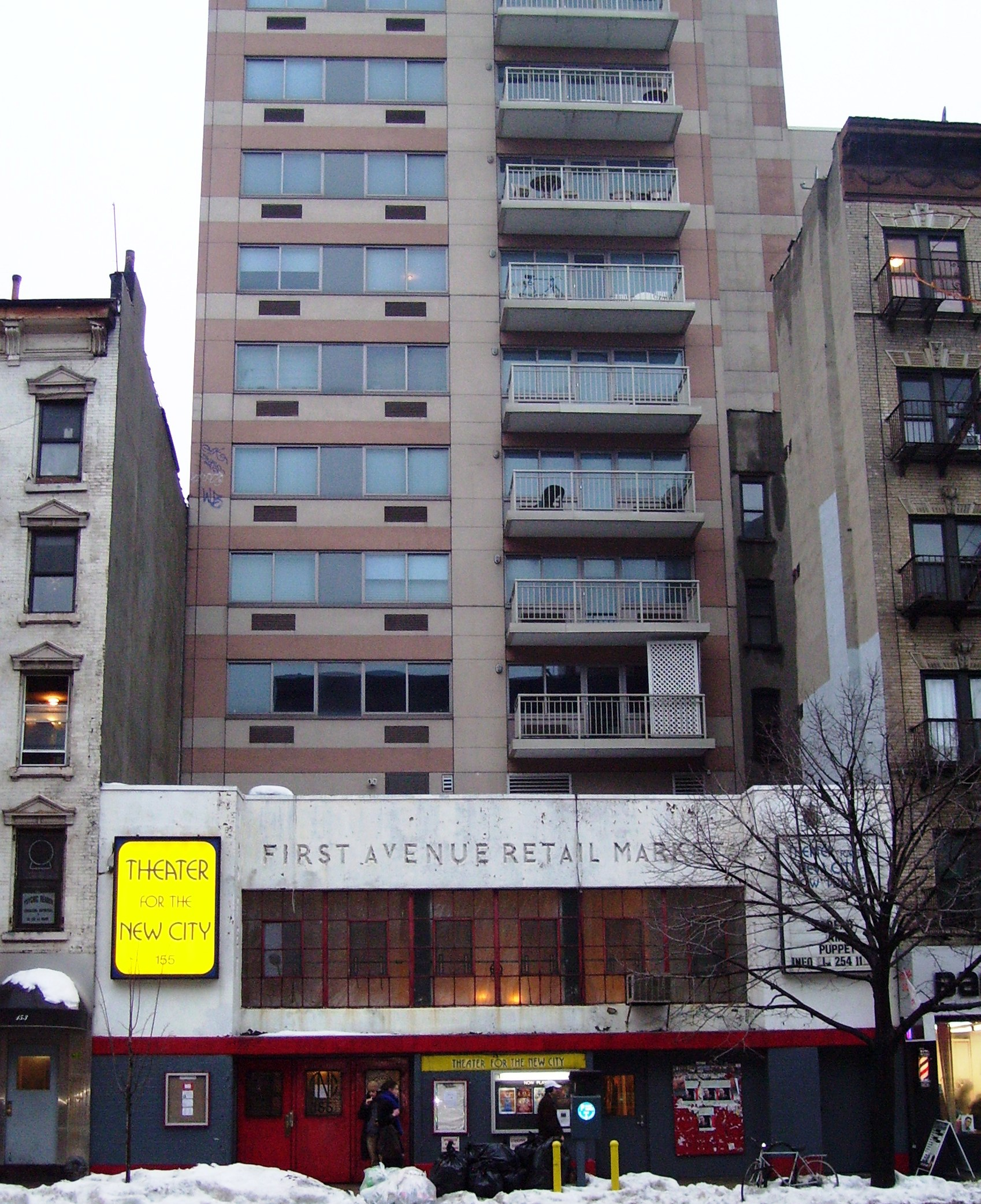 The avant-garde Theater for the New City was founded in 1971, and since 1986 has been located in the former First Avenue Retail Market at 155 First Avenue, between 9th and 10th Streets in the East Village neighborhood of Manhattan, New York City. The building was constructed in 1938 by Robert Moses, along with other neighborhood retail markets, after Mayor Laguardia decided to get pushcarts off the streets. (They were banned as of December 1, 1938.) Behind the theater is the New Theater Building a 12-story condominium tower built in 2000 by New York City, which had retained the air rights when the market building was sold to TNC.